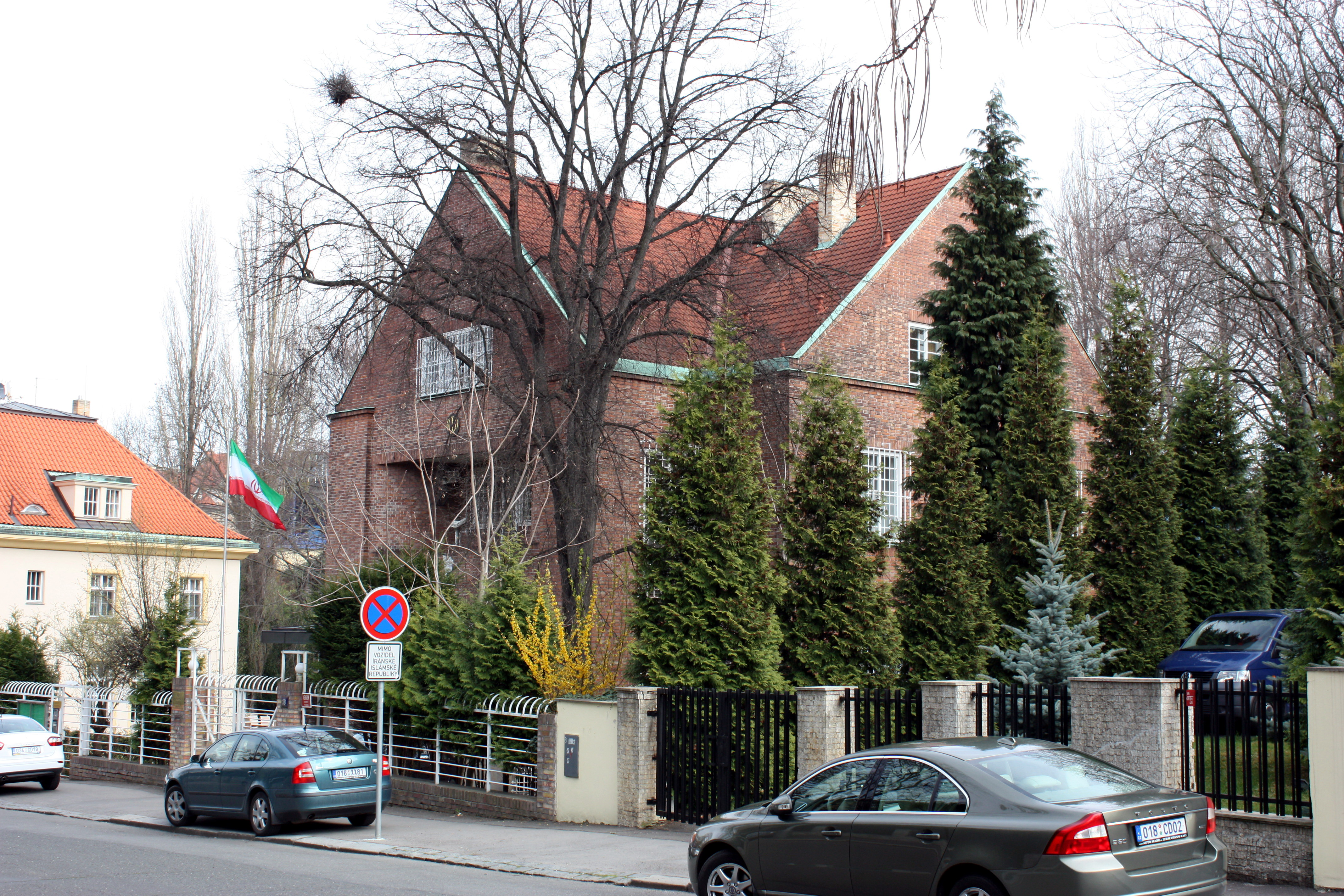 Embassy of Iran in Prague - Bubeneč, Czechia.